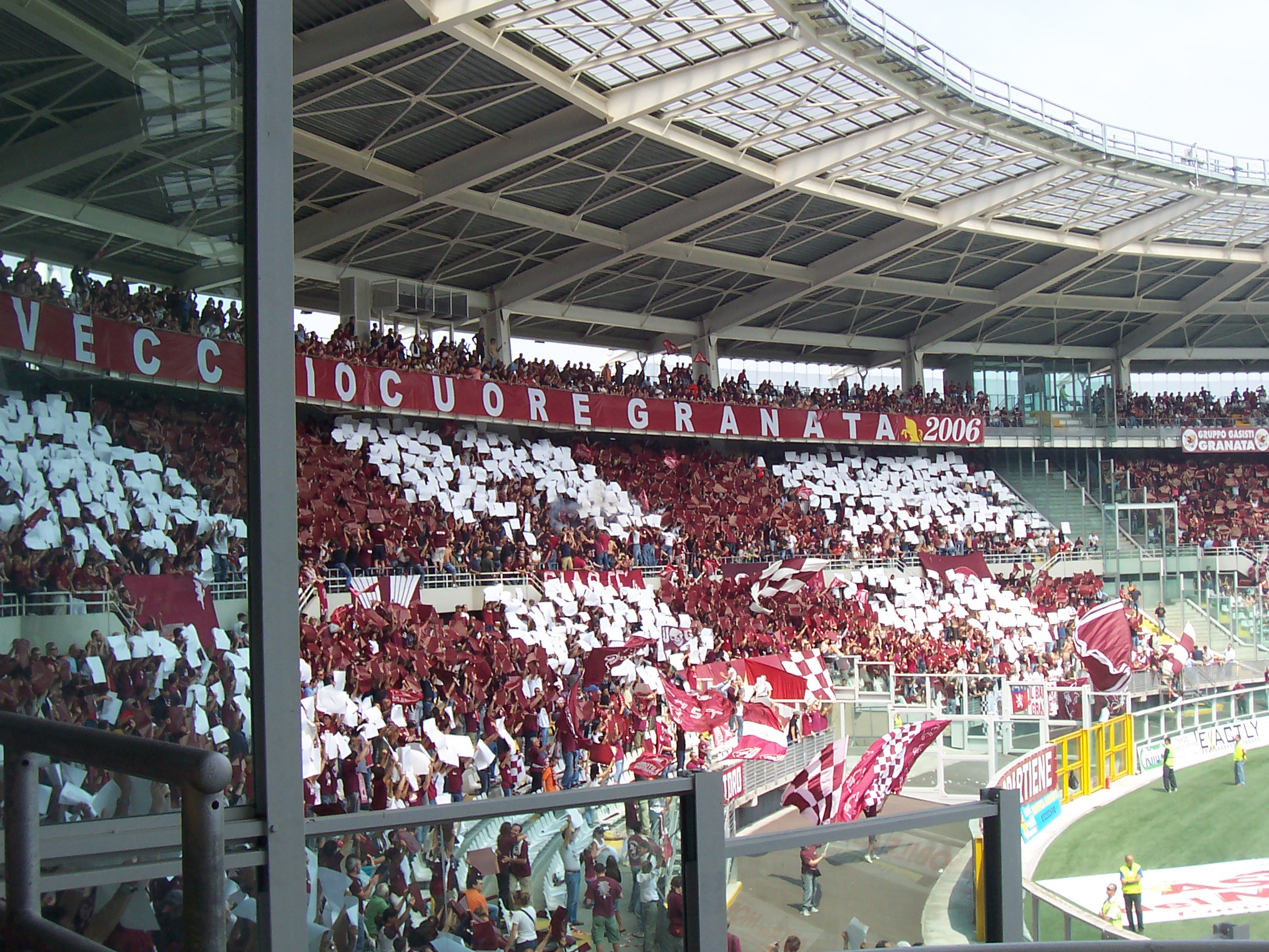 Supporters of Torino F.C..